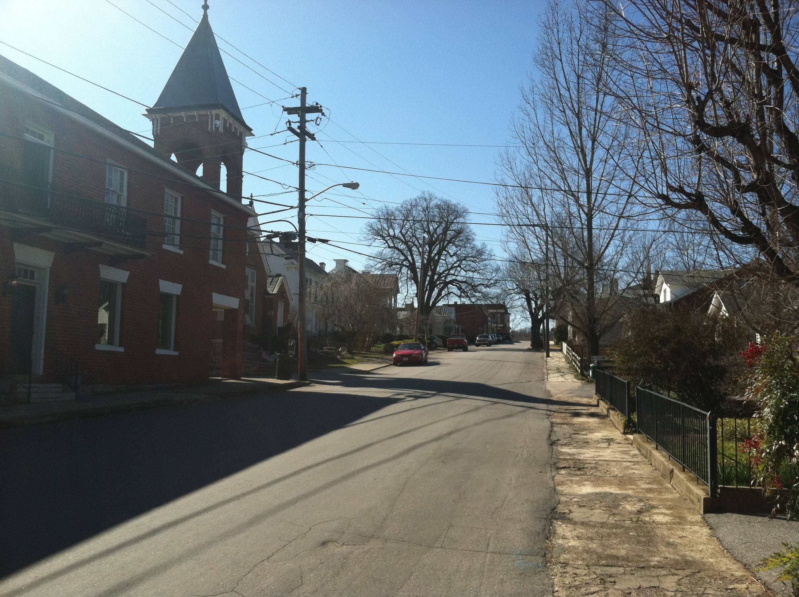 A view of East Main St in Fincastle, Virginia